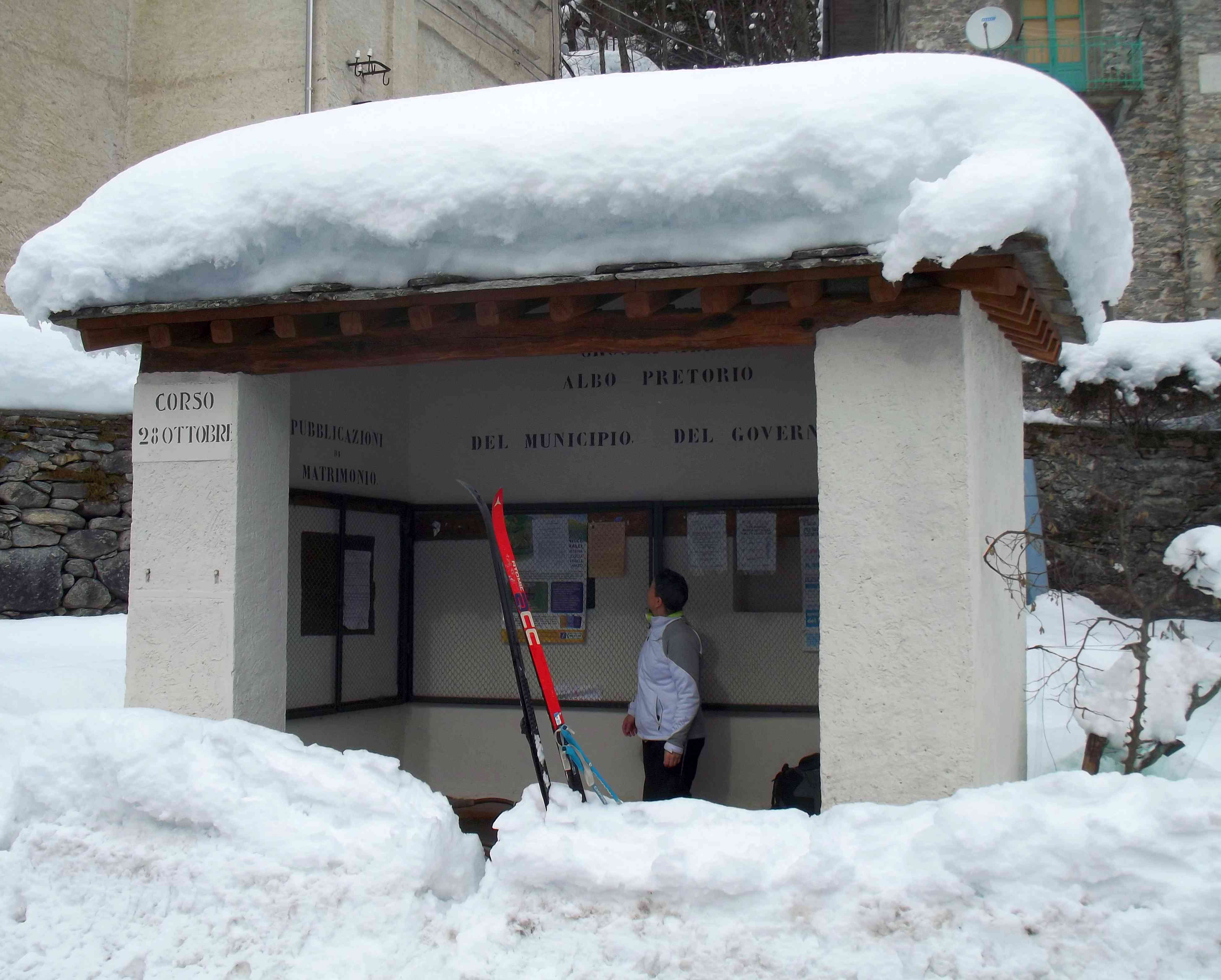 Groscavallo (TO, Italy): municipal bulletin borad